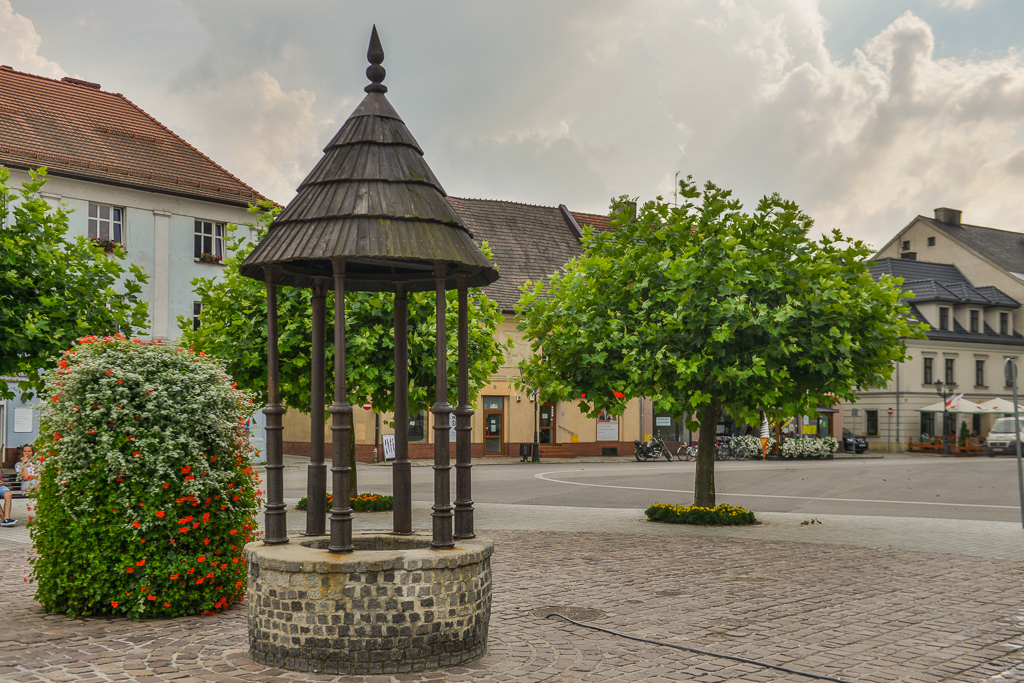 Dummy of well, centre of Pszczyna, silesian voivodeship, Poland